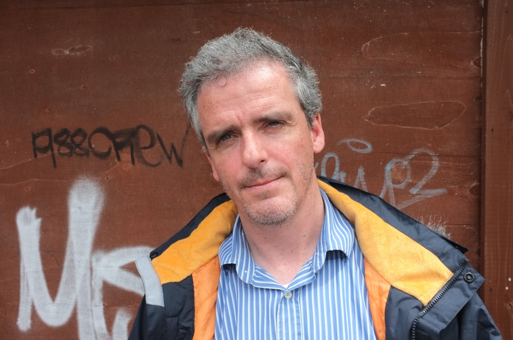 Donovan Wylie (Bristol Photobook Festival, 2014)